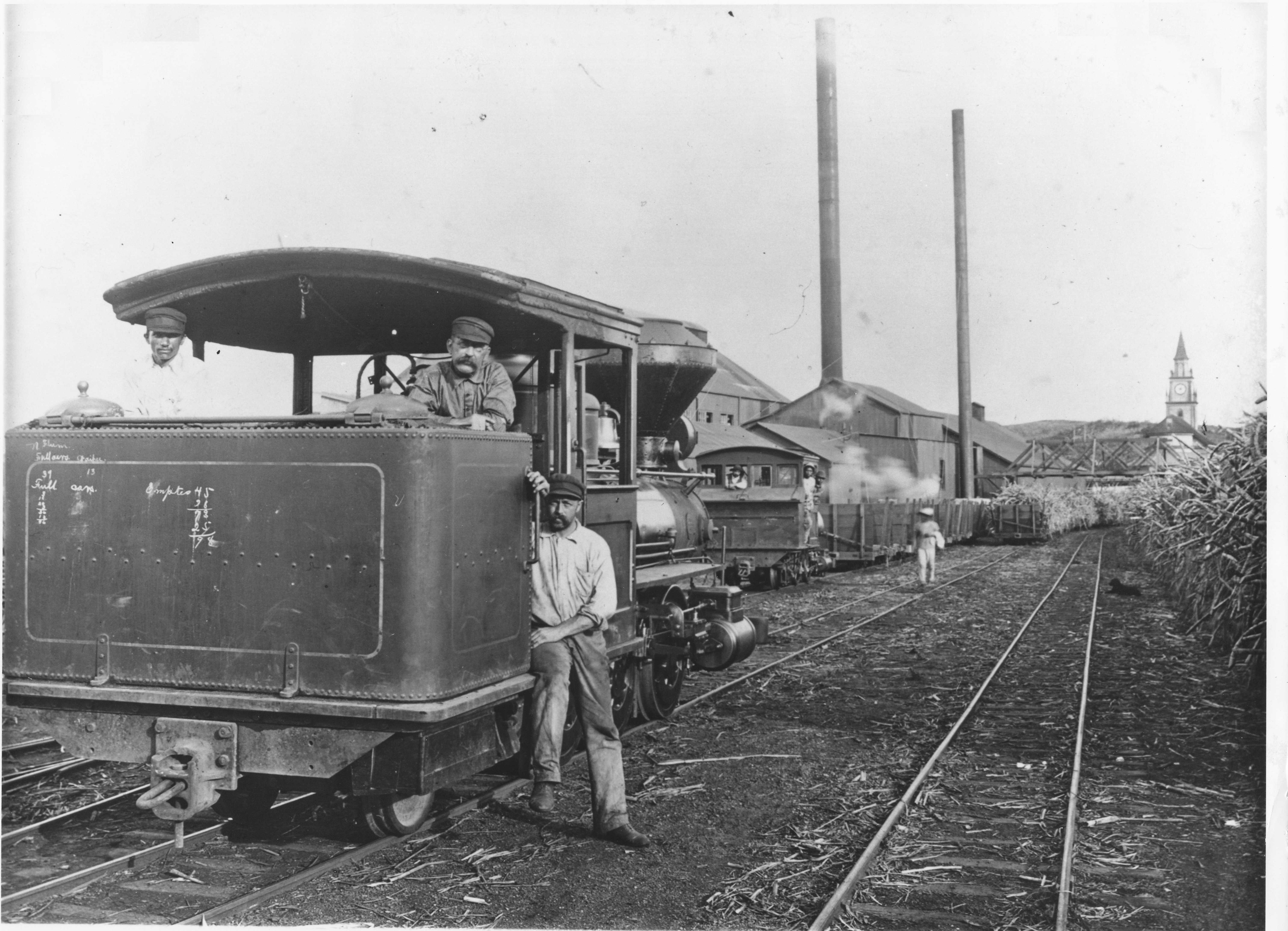 Locomotives at Kahului on railroad from Kahului to Wailuku, Maui